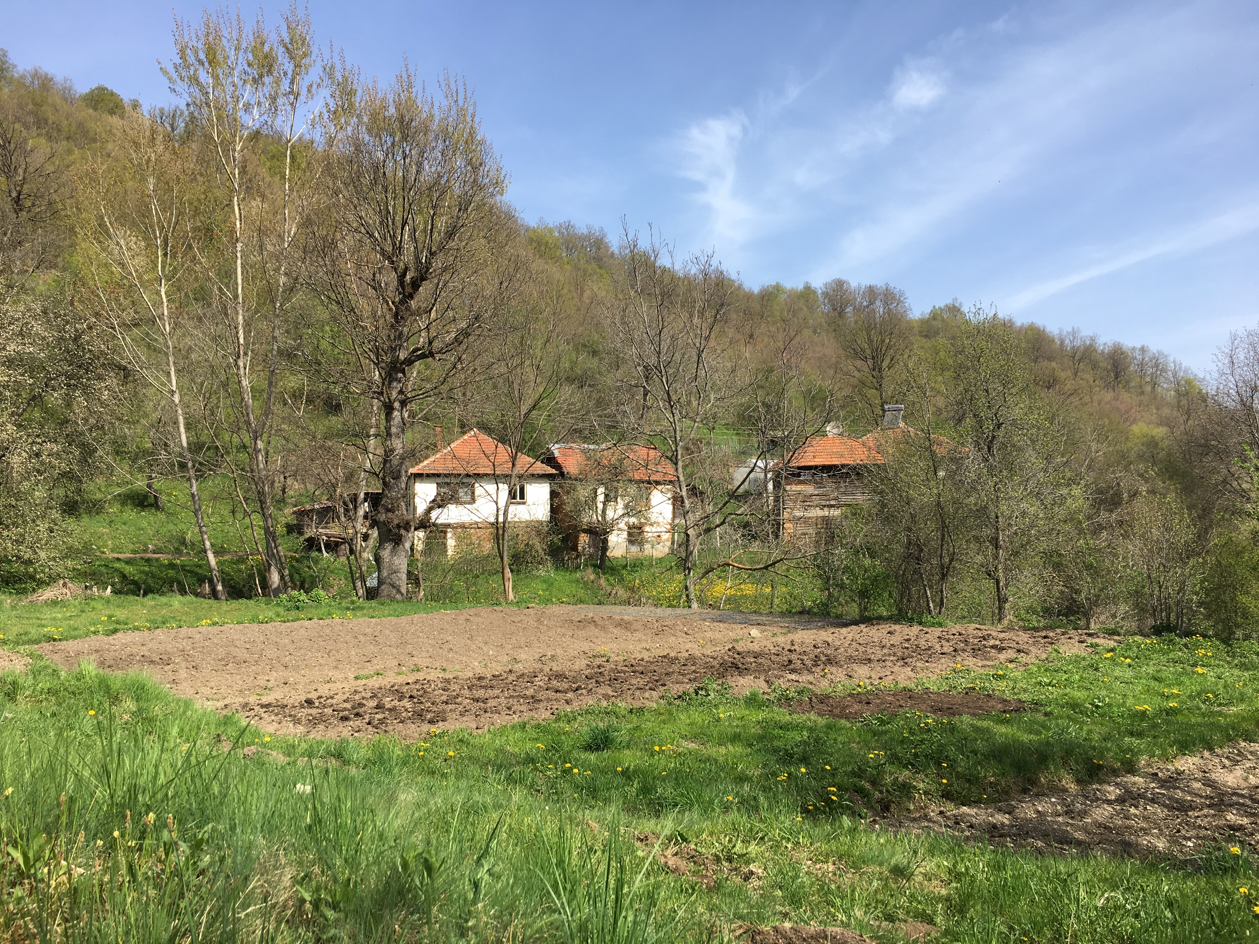 A view of the village of Kostur